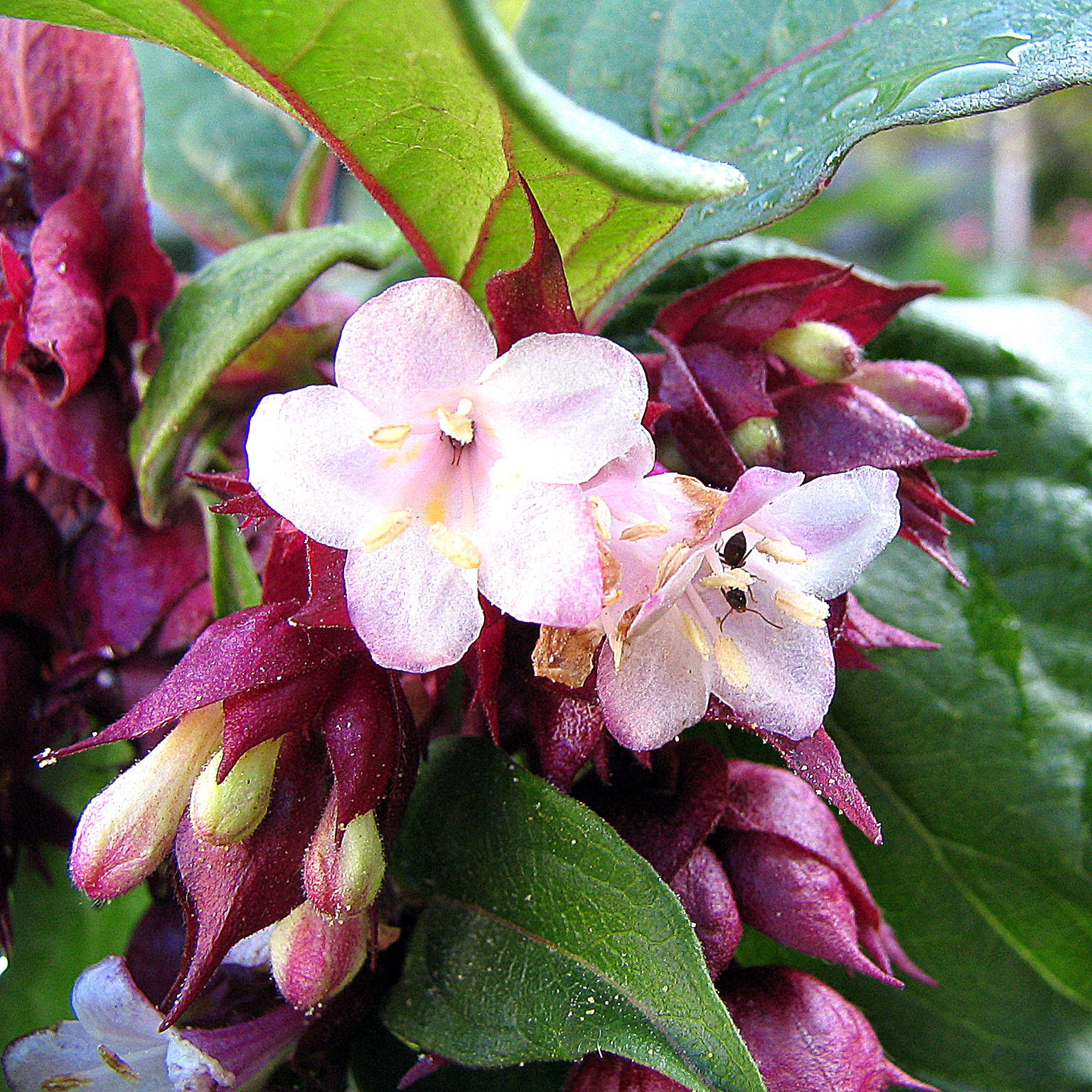 Leycesteria formosa flowers